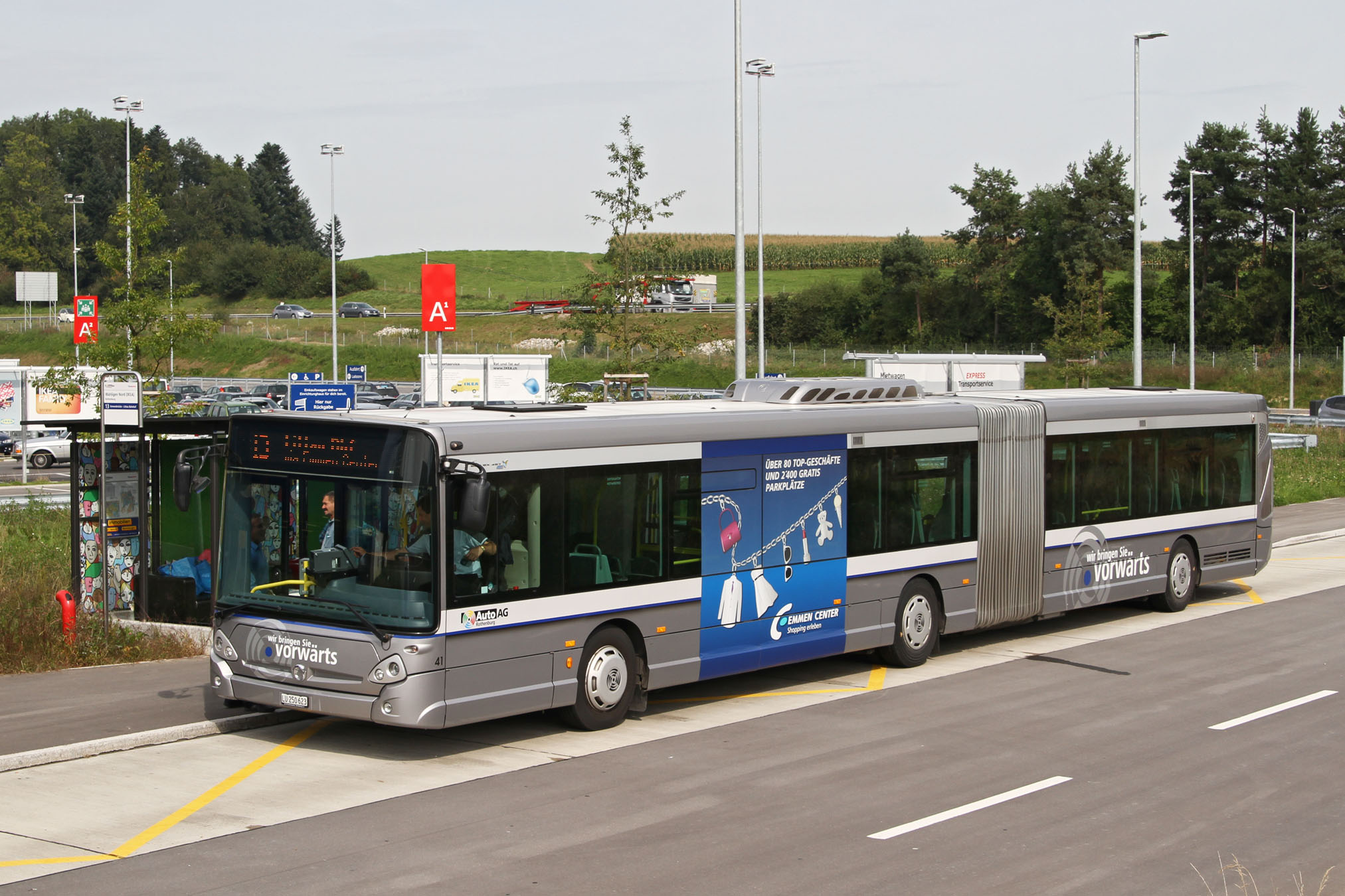 Auto AG Rothenburg's Heuliez GX 427 N° 41 at the busstop Rothenburg, Wahligen Nord/IKEA